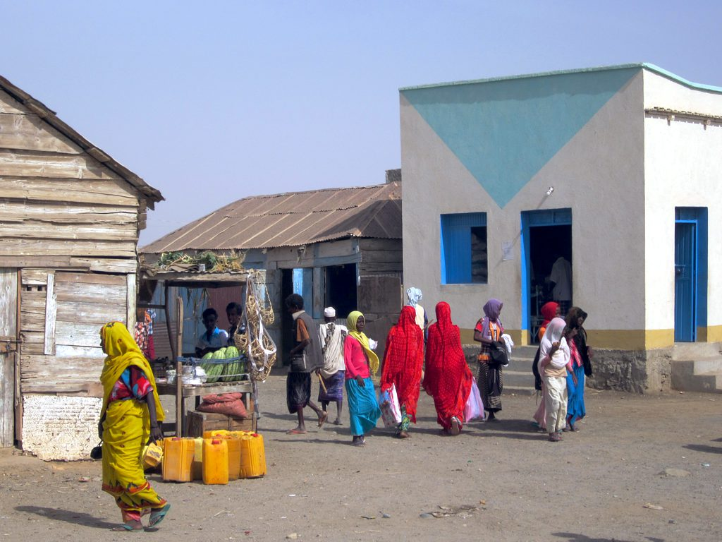 Colorfully-clad villagers in Foro, a village south of Massawa, Eritrea. The famous archaeologcal site of Adulis is seven kilometers east of here.